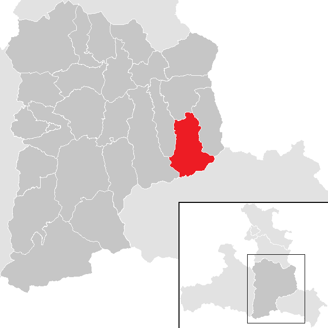 District Sankt Johann im Pongau